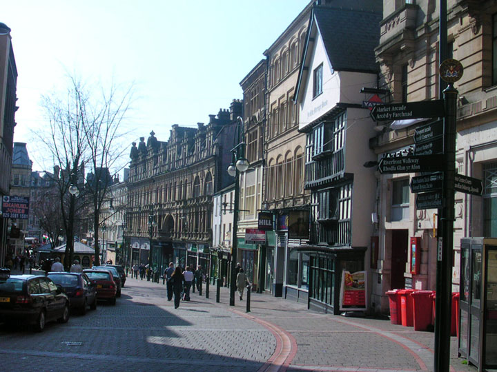 View looking south along the High Street, Newport, Wales, with Ye Olde Murenger Pub in the foreground and Newport Arcade entrance in the middle distance.